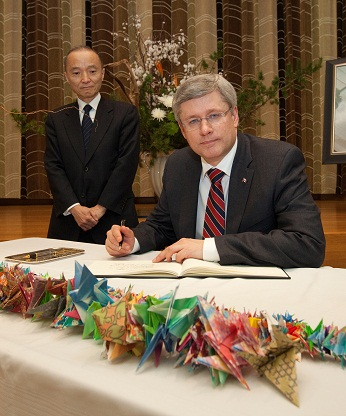 Stephen Harper, Prime Minister, visited the Embassy of Japan in Otawa, to sign a book of condolence for the victims of the recent tsunami and earthquakes that have impacted the country on March 23, 2011. Harper met with Kaoru Ishikawa, Ambassador to Canada. (c.f. "東日本大震災の被災者の方々に対するお見舞いの記帳終了のお知らせと御礼", 在カナダ日本国大使館: 東日本大震災の被災者の方々に対するお見舞いの記帳終了のお知らせと御礼, Embassy of Japan in Canada.)